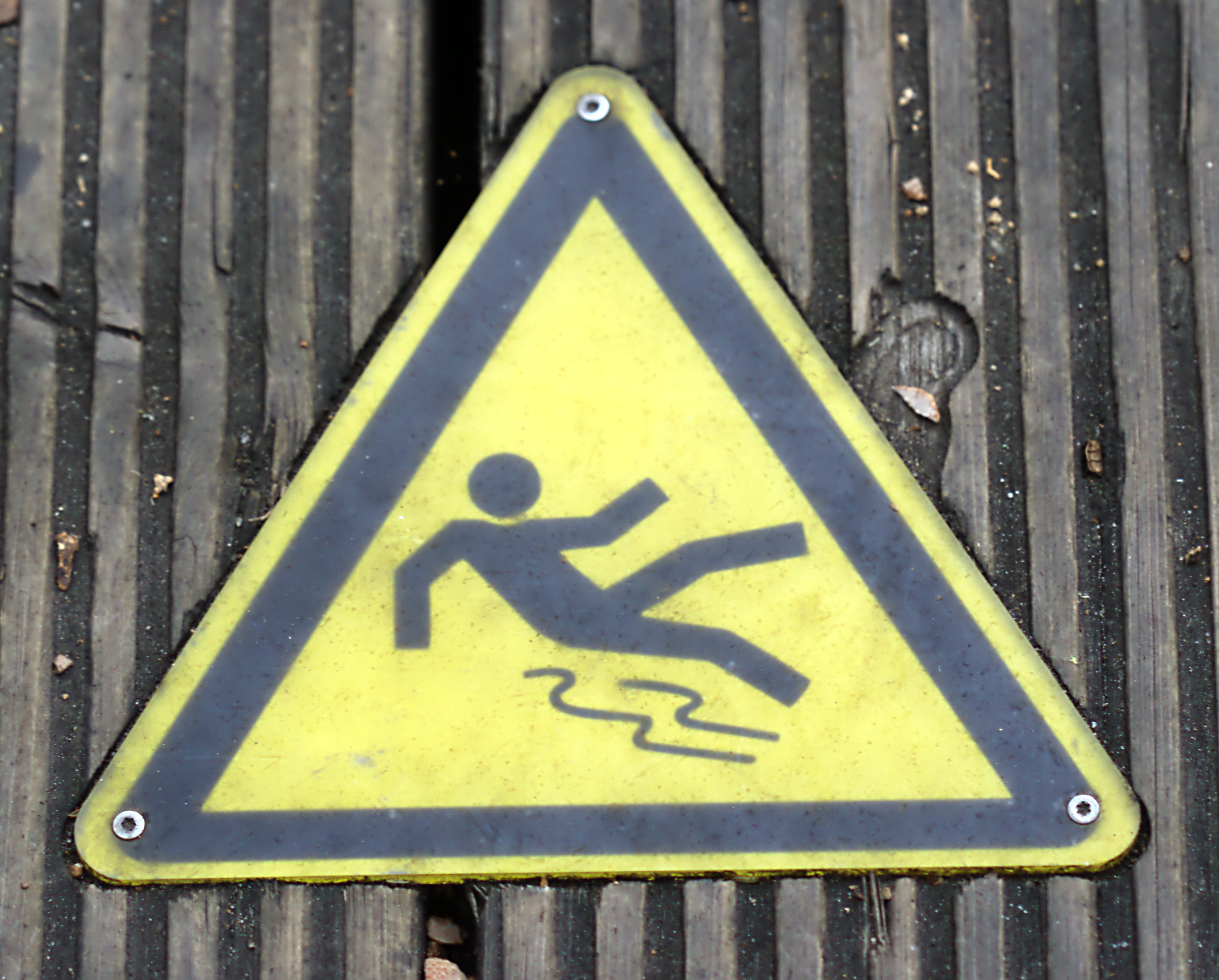 icon for public signs warning that the ground is slippery when wet